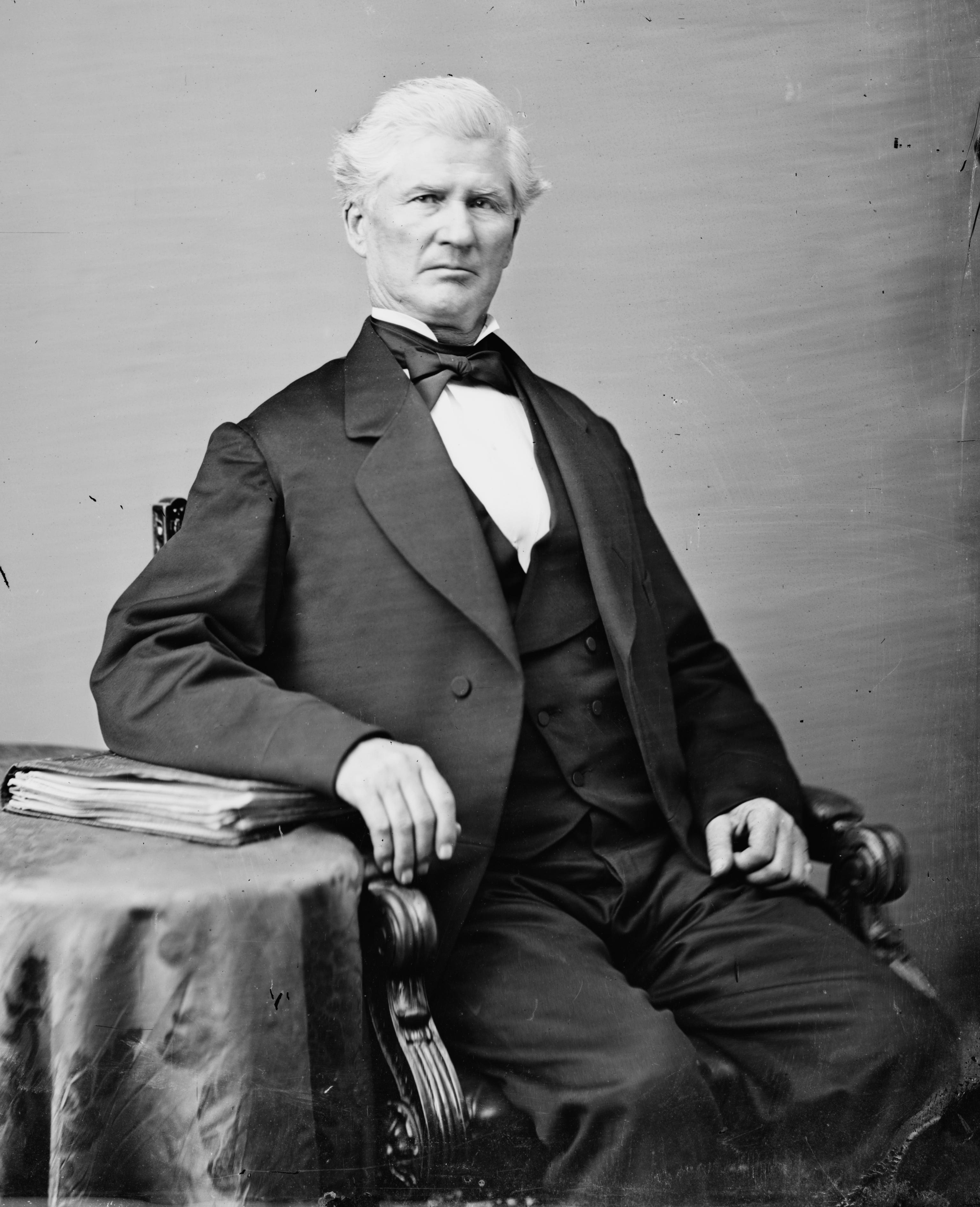 Robert E. Withers. Library of Congress description: "Senator Robert Enoch Withers of Va".